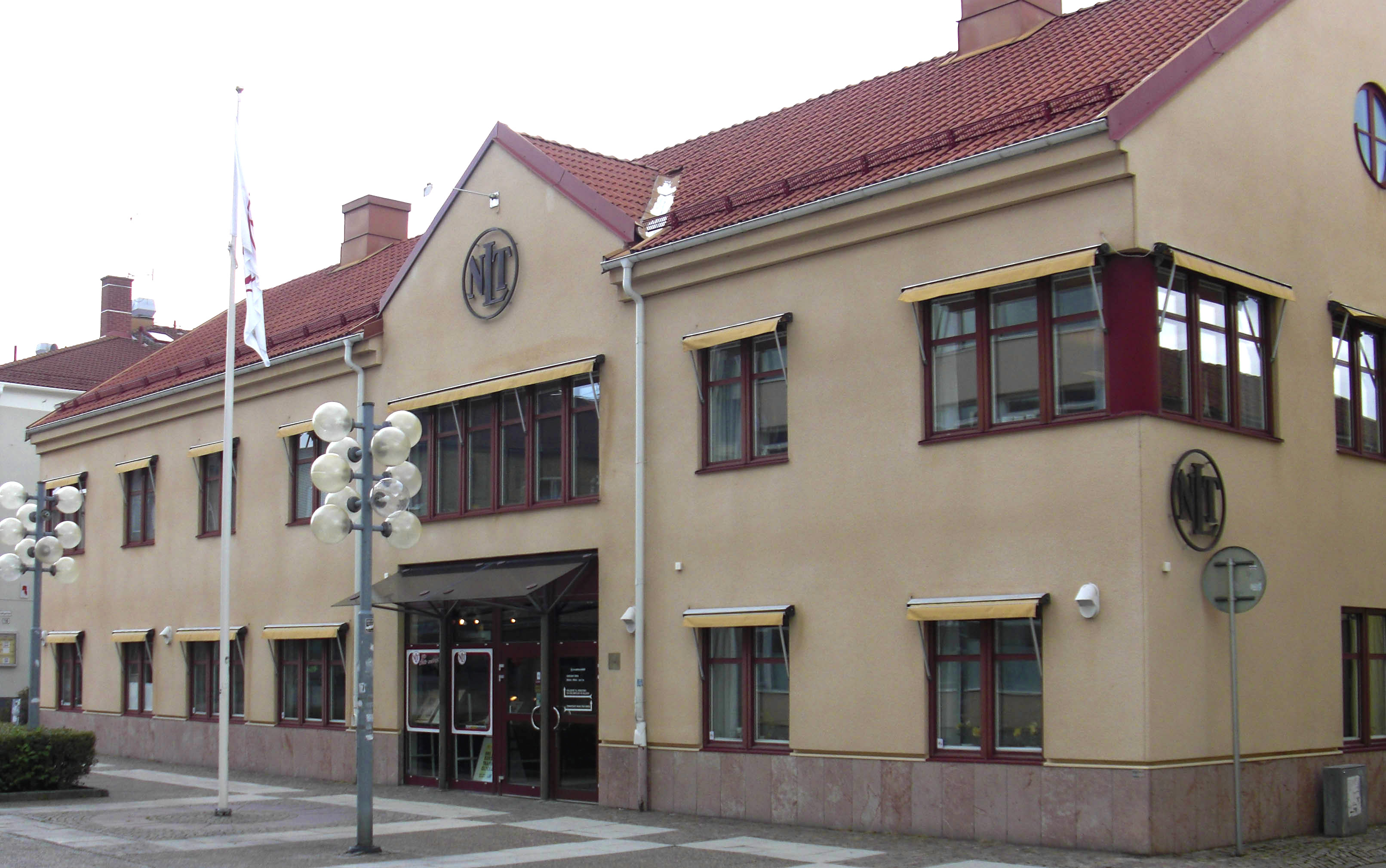 Nya Lidköpings-Tidningens headquarters in Lidköping